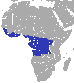 Thomas's Bushbaby (Galago thomasi) range